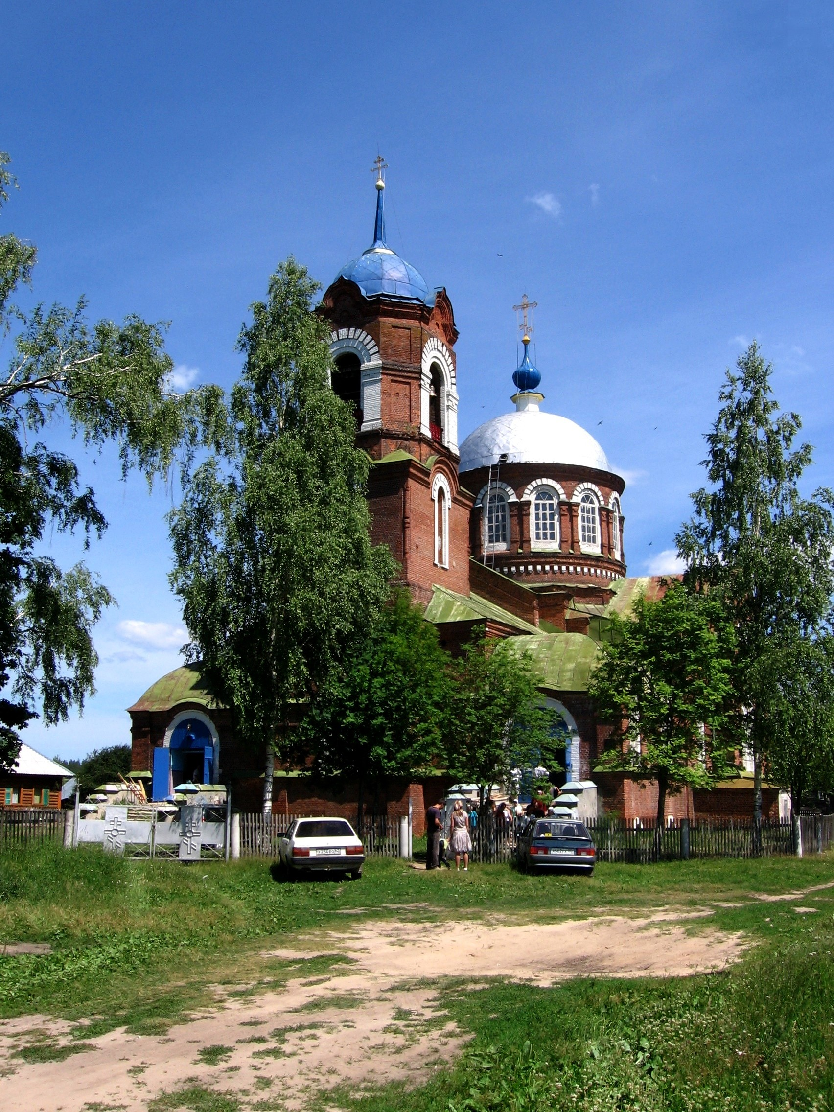 The Church of the Dormition of the Mother of God (1910) in Struzhany village, Spas-Klepiki raion, Ryazan Oblast.